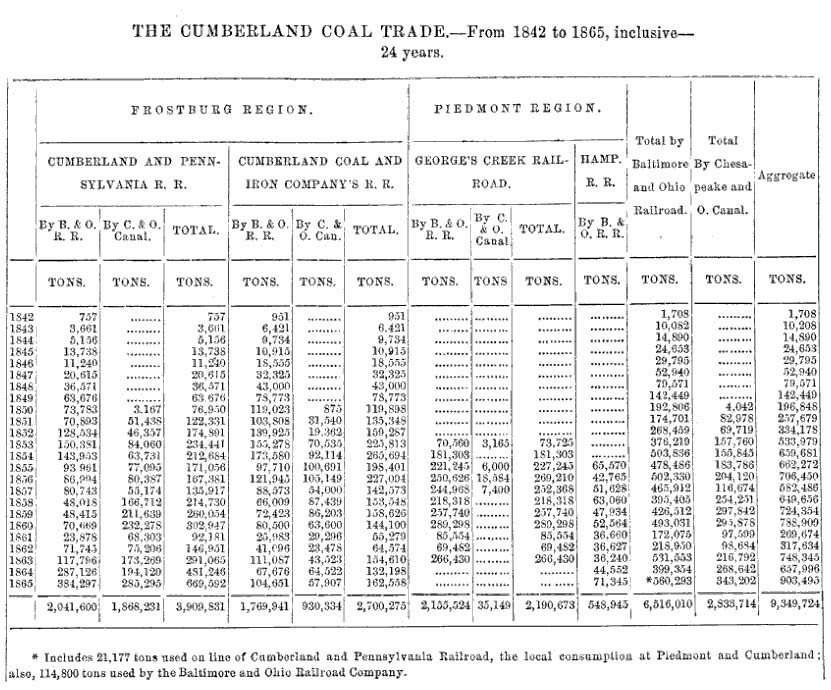 Table, "The Cumberland Coal Trade—From 1842 to 1865, inclusive."